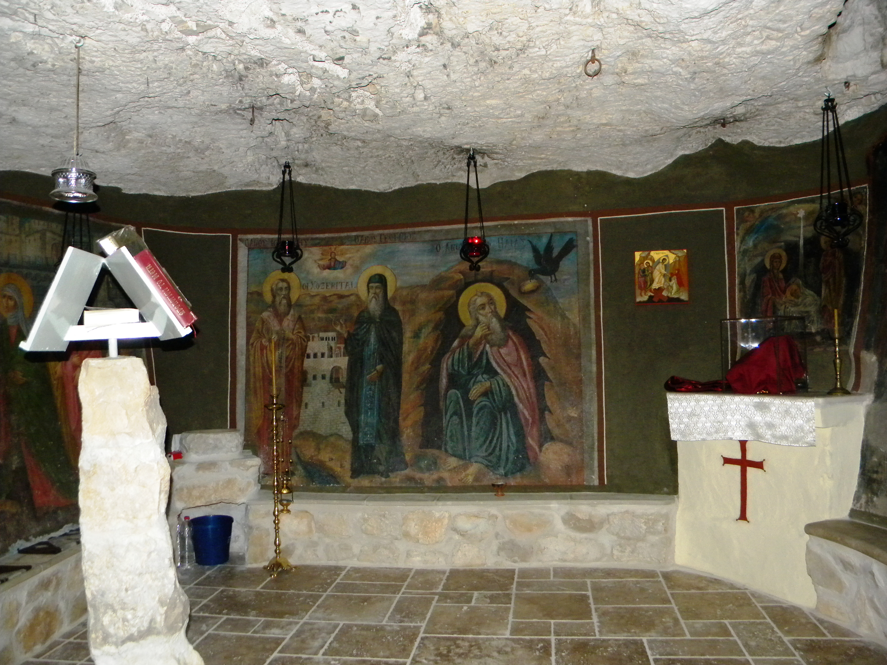 Palestine, Wadi Qelt (Valea Hozevei)(Sf. Gheorghe Monastery (grotto of Sf. Elijah nourished by an eagle)